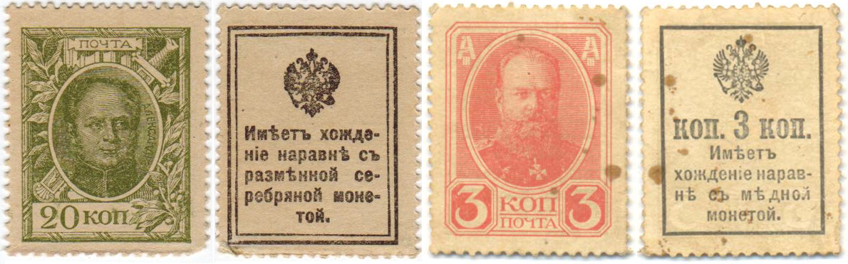 Stamp money of Russia, 1915-1916